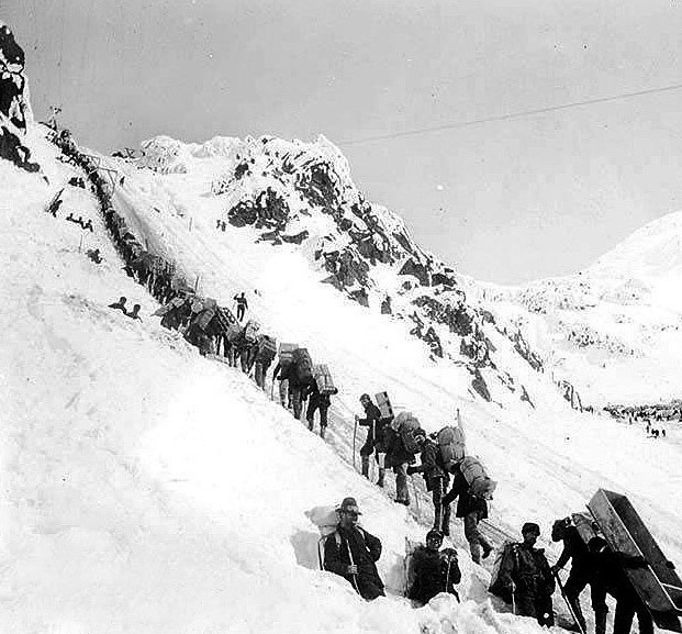 Klondikers carrying supplies ascending the Chilkoot Pass, 1898